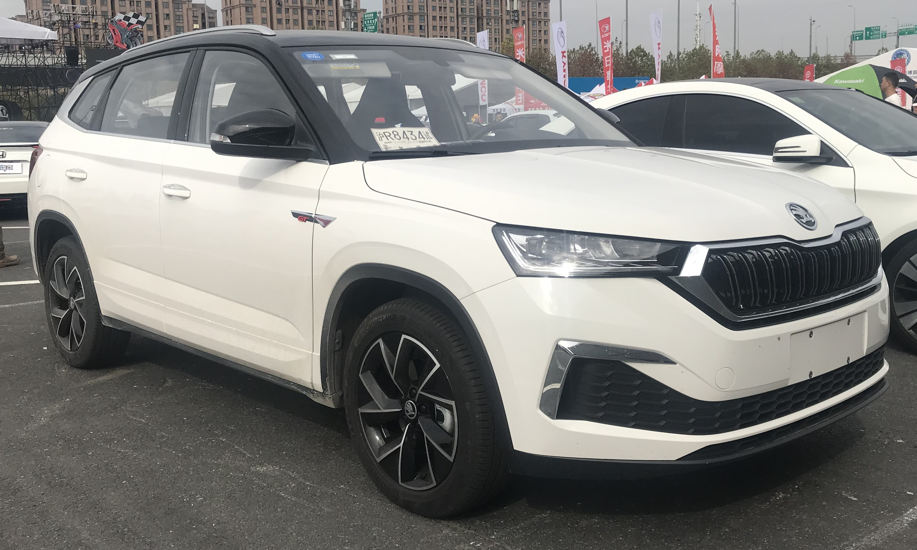 Skoda Kamiq GT front